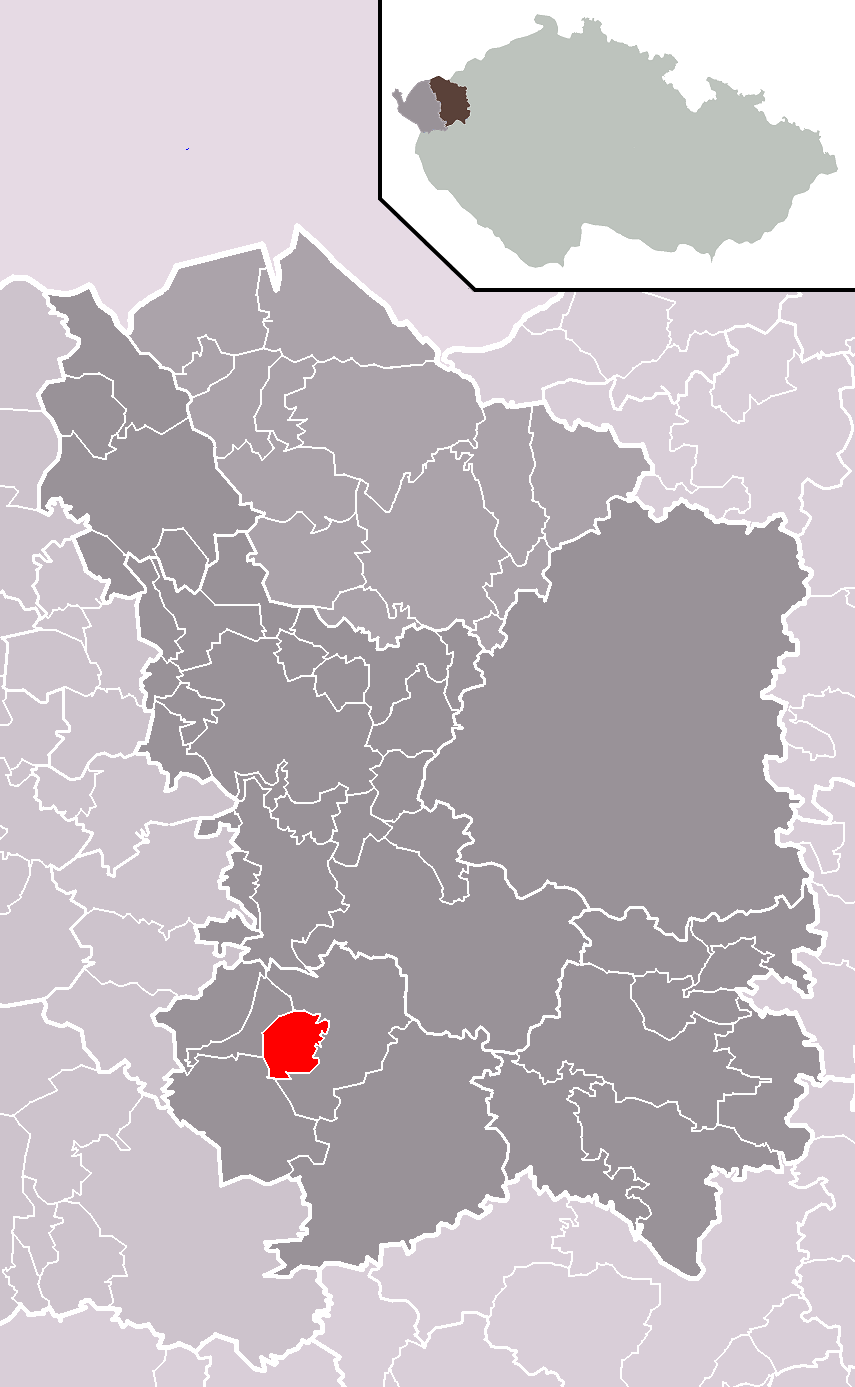 Location of Krásné Údolí municipality within Karlovy Vary District and administrative area of Karlovy Vary as a Municipality with Extended Competence.